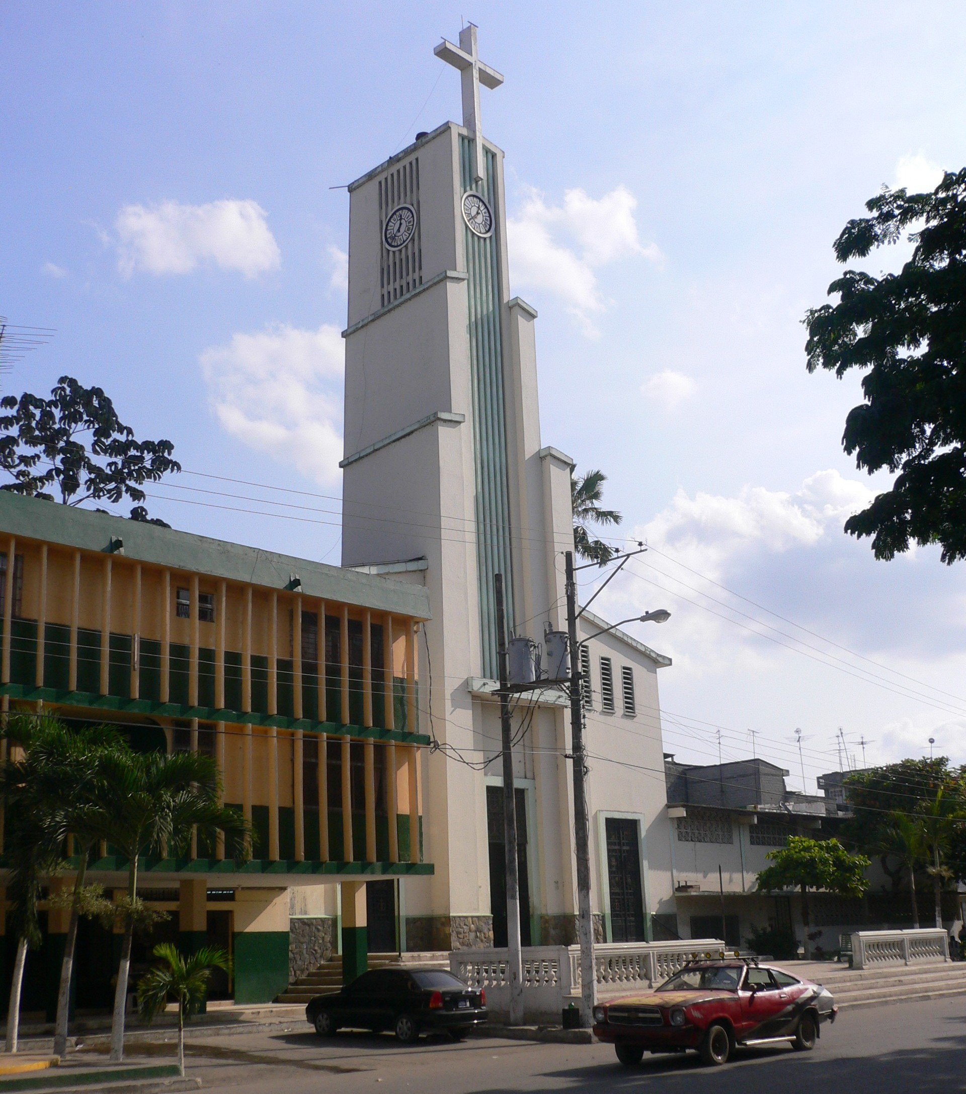 Church of Vinces